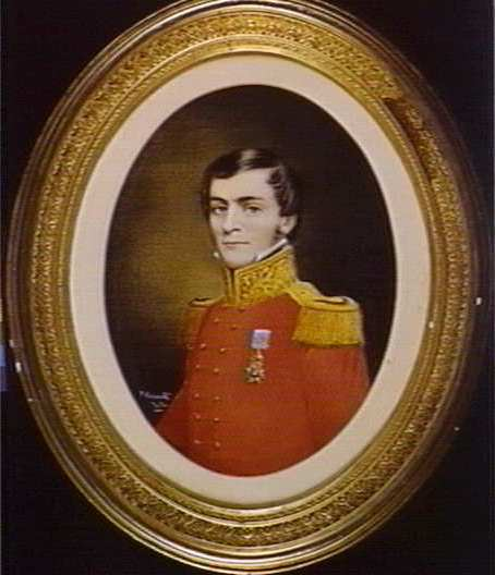 A digital image of a watercolour, gouache, gum arabic and pencil painting over an albumen silver photograph of Lieutenant-Colonel Sir Andrew Clarke (1793–1847), Governor of Western Australia from 1846 to 1847.